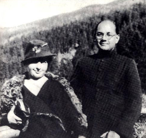 Subhas Chandra Bose with his wife Emilie Schenkl